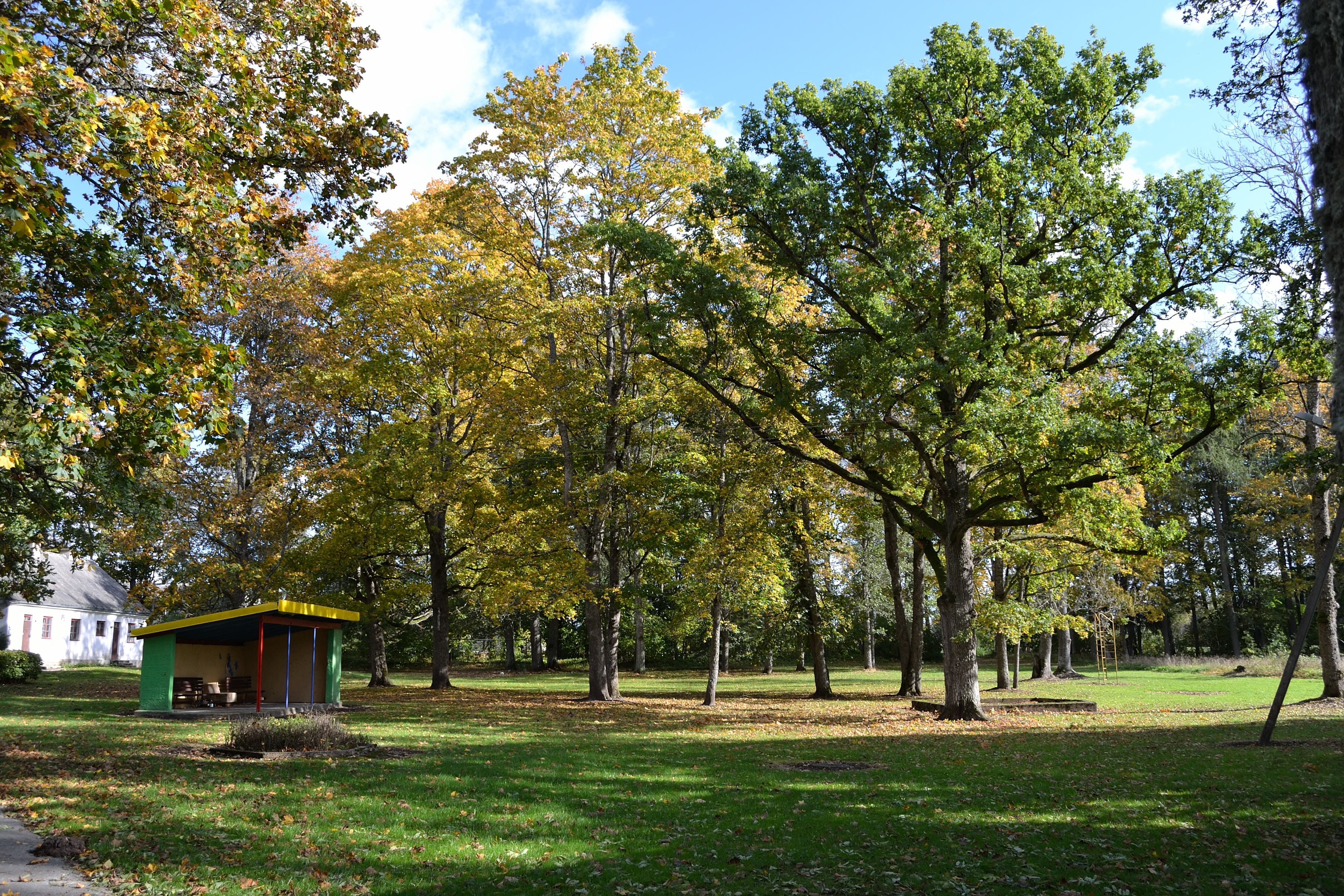 Maidla manor park